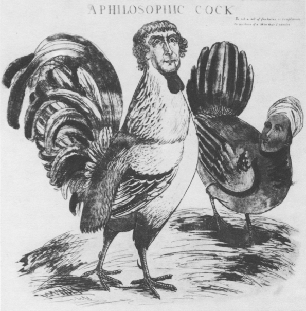 Engraving: "'A philosophic cock' attributed to James Akin, Newburyport, Massachusetts, ca.1804." Depicts a caricature of Thomas Jefferson and Sally Hemings